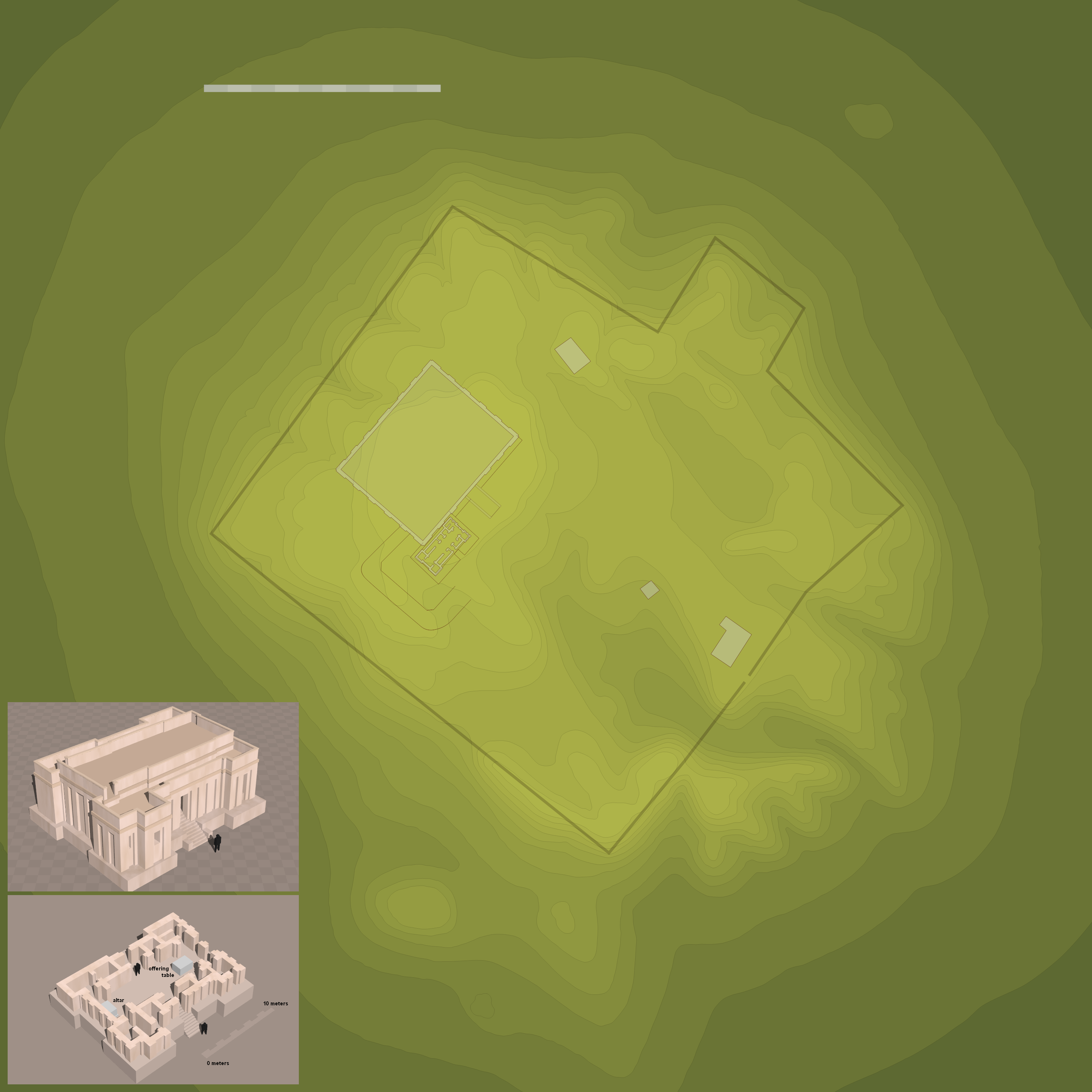 Rough map of the Eridu mound showing the main ziggurat, temple, and a few buildings